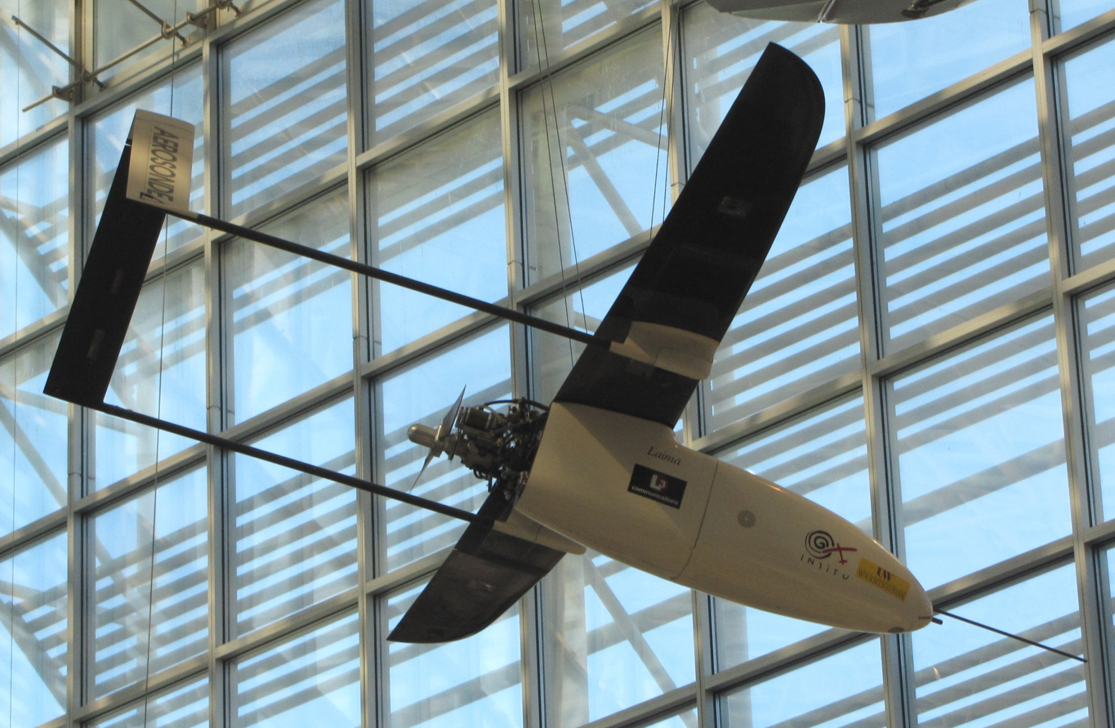 Insitu Aerosonde "Laima" on display at the Seattle Museum of Flight.